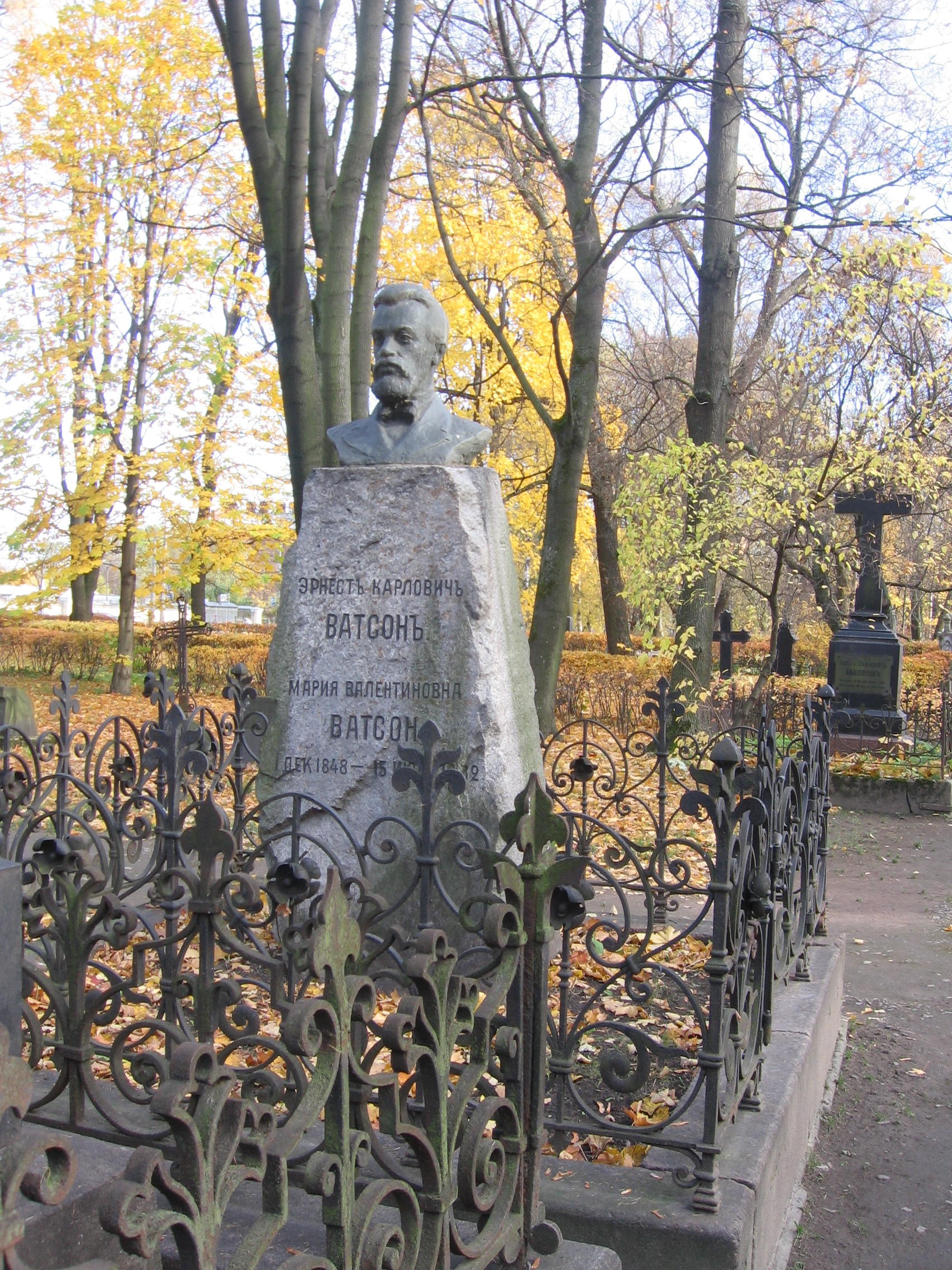 Grave of Ernest Watson and Mary Watson